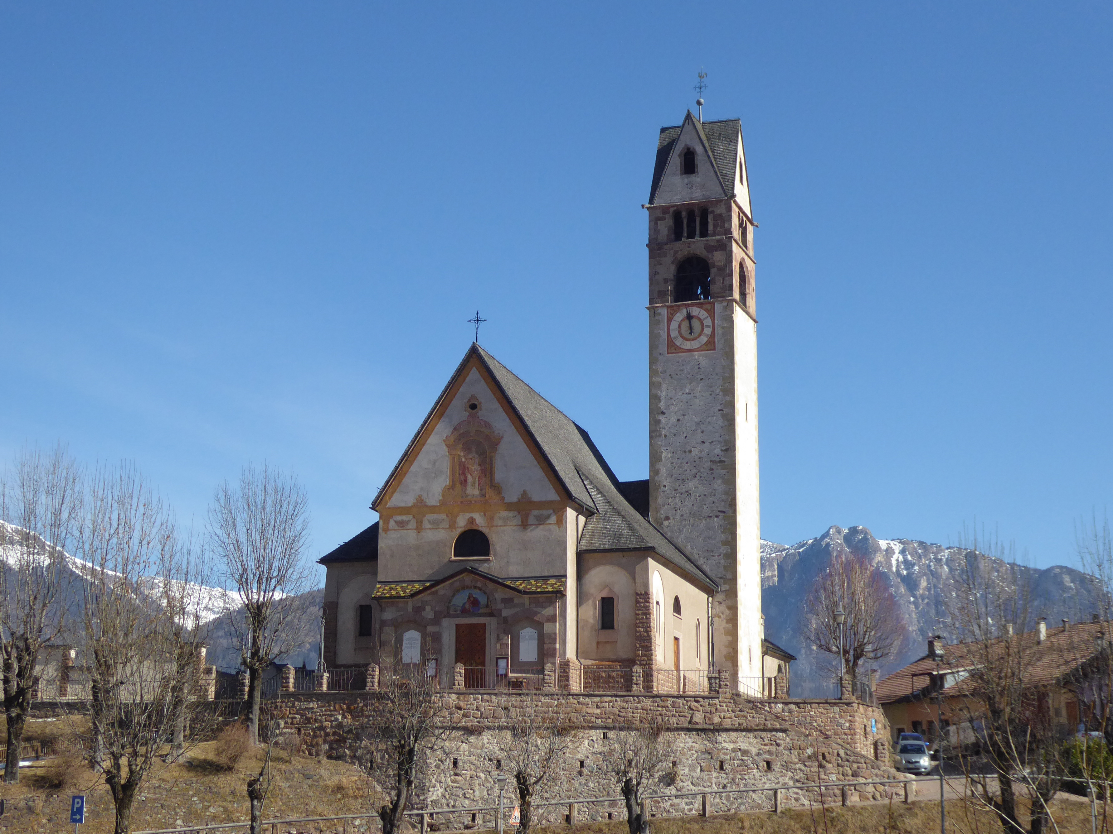 Carano (Trentino, Italy) - Saint Nicholas church